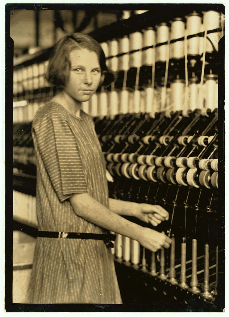 Cheney Silk Mills. Favorable working conditions. Location: [South Manchester, Connecticut]